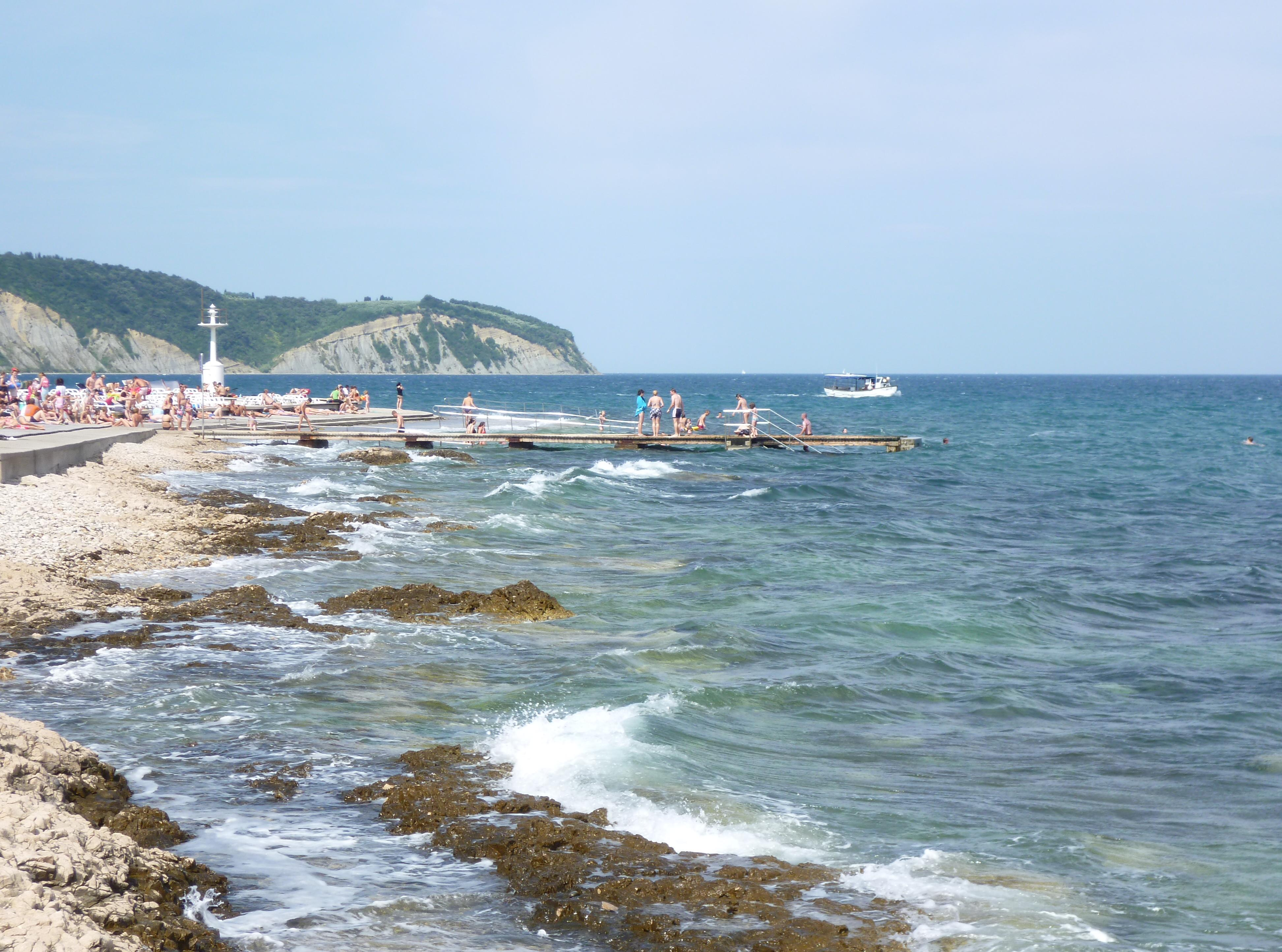 Slovenian coast at Izola